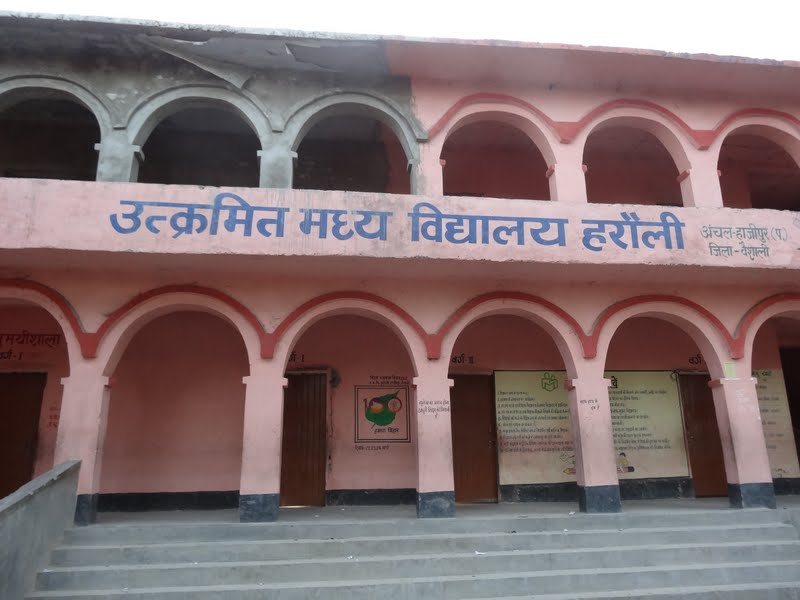 located in haruli,ismailpur,hajipur lalganj road, vaishali, SH74